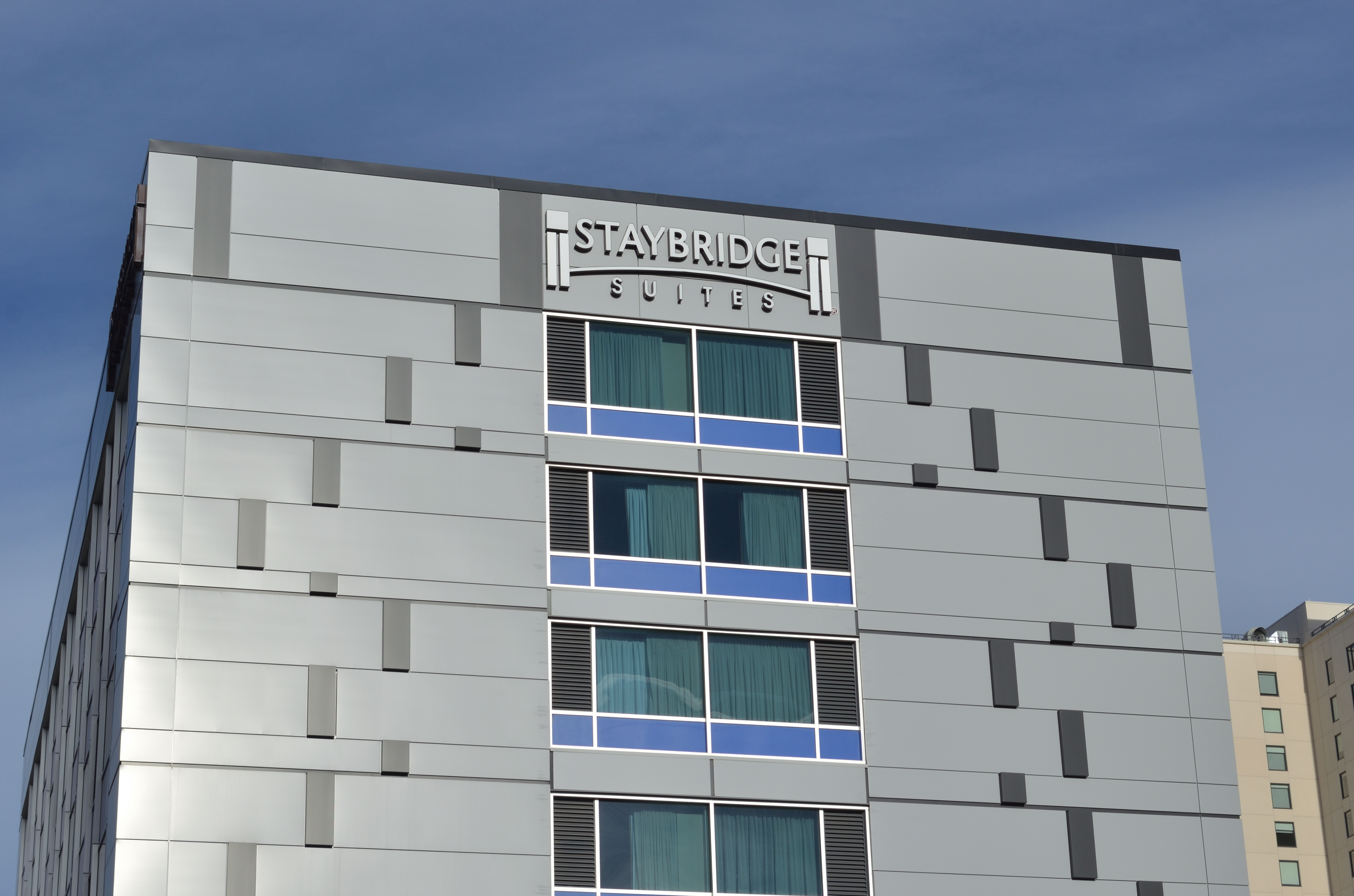 Staybridge Suites Denver Downtown - Address: 333 West Colfax Avenue Denver, Colorado 80204 United States